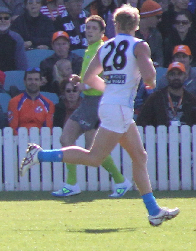 2012 Round 7. GWS Giants vs Gold Coast Suns. Manuka Oval.